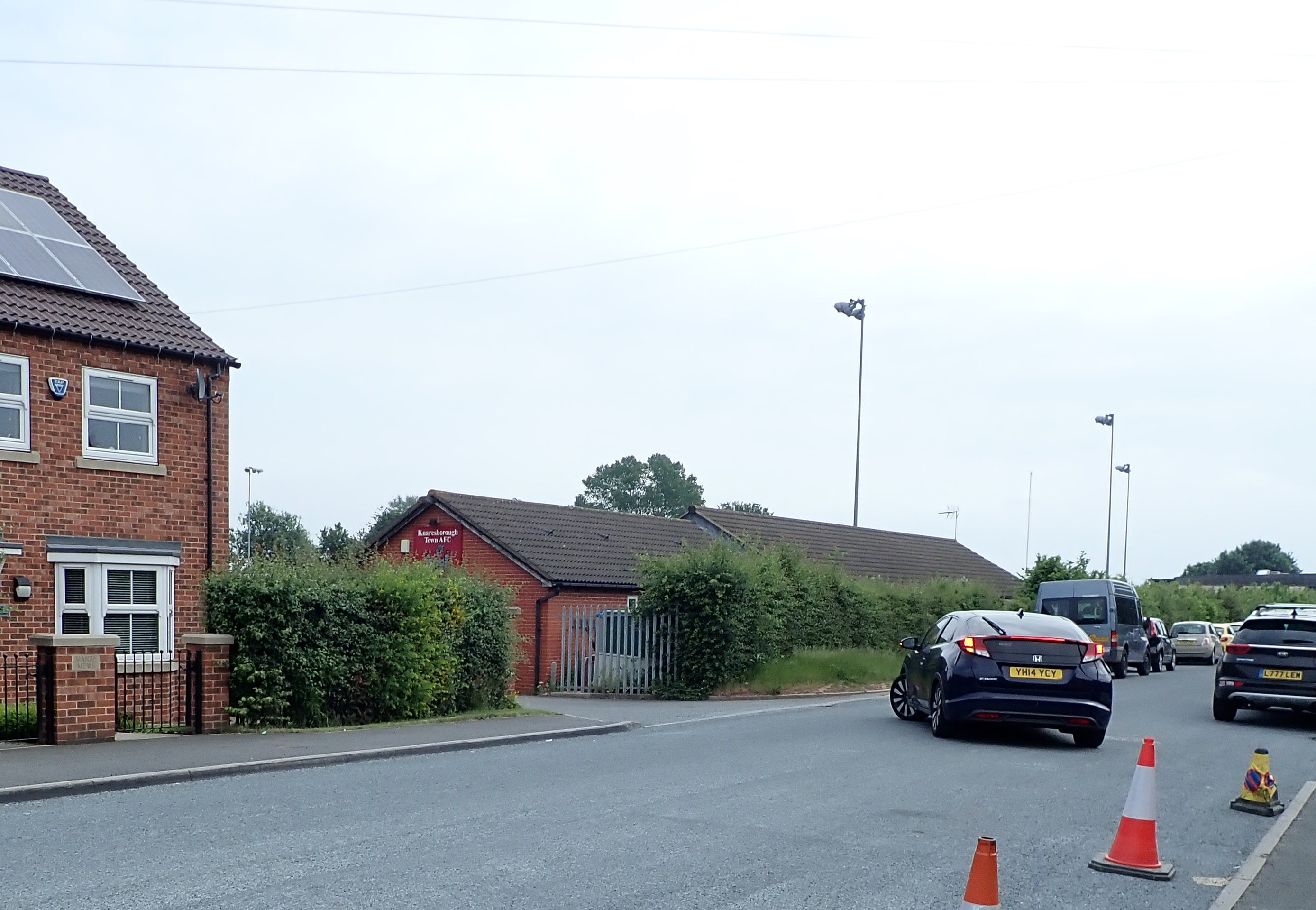 Entrance to Knaresborough Town Football Club